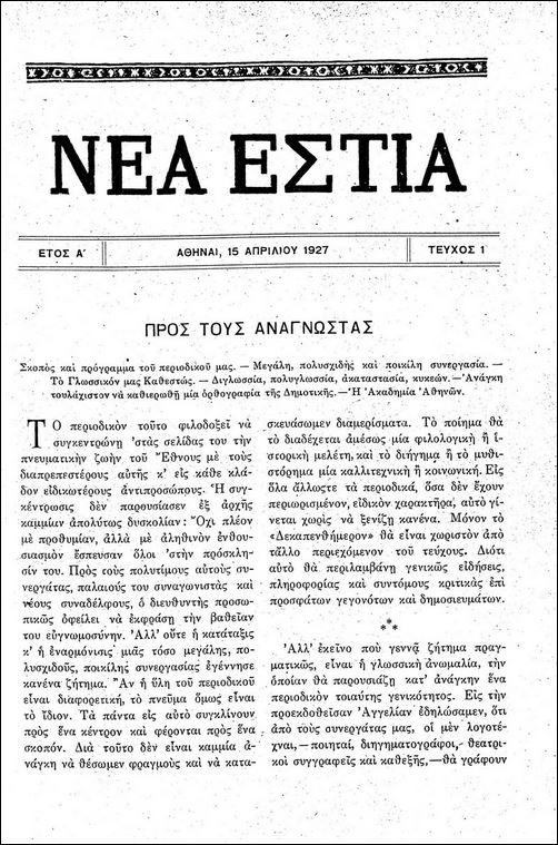 Nea Estia, first page, issue no 1, 15 April 1927